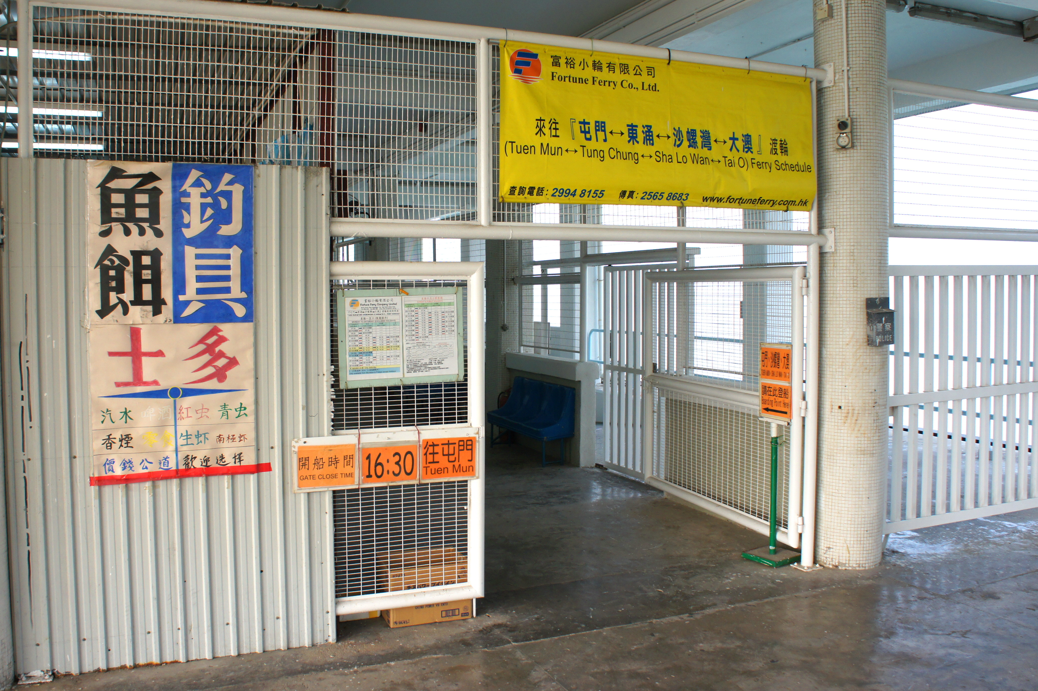 Tung Chung New Development Ferry Pier, Tung Chung, Hong Kong.